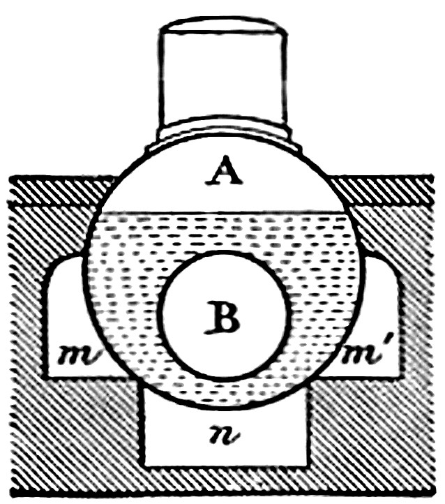 Cornish boiler, end-section (Heat Engines, 1913).jpg